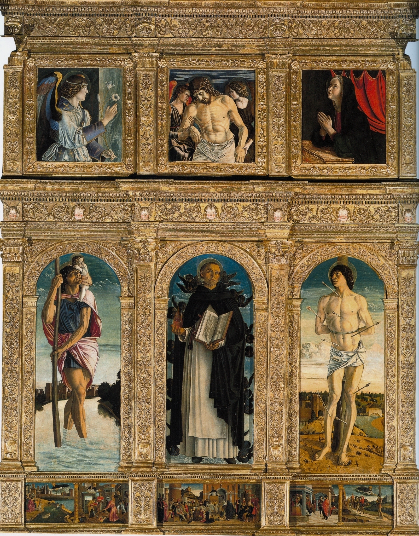 Polyptych-of-st-vincent-ferrer-_Bellini_Giovanni.jpg